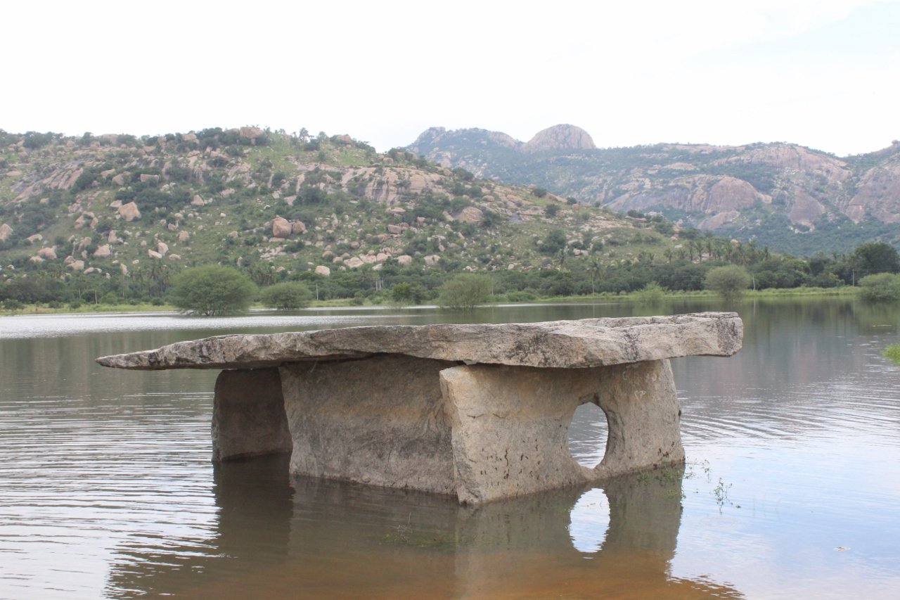 Water logged in pond for heavy rainfall this November 2015.jpg